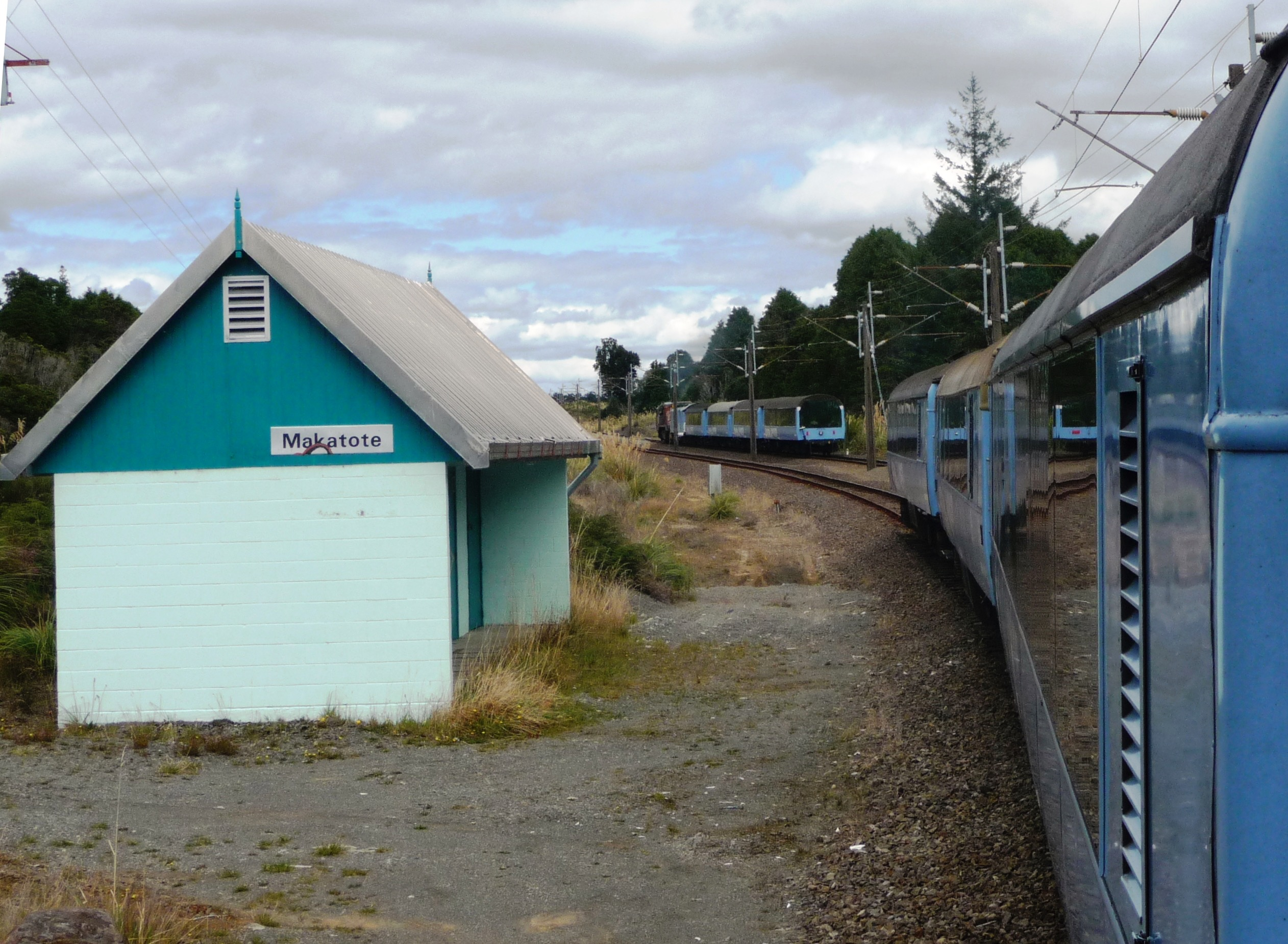 Overlander trains crossing in 2009